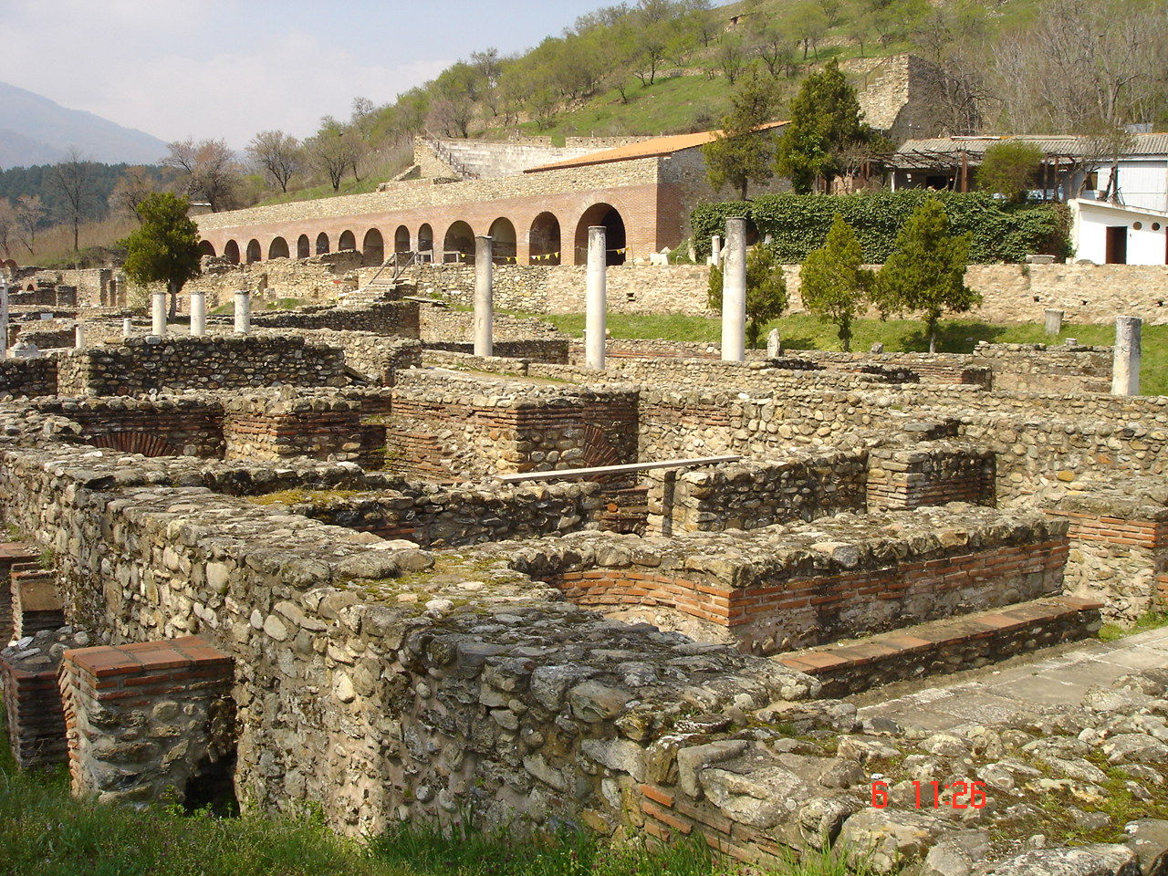 Heraclea Lyncestis, ancient Macedonian city founded by Phillip II, near Bitola, Macedonia